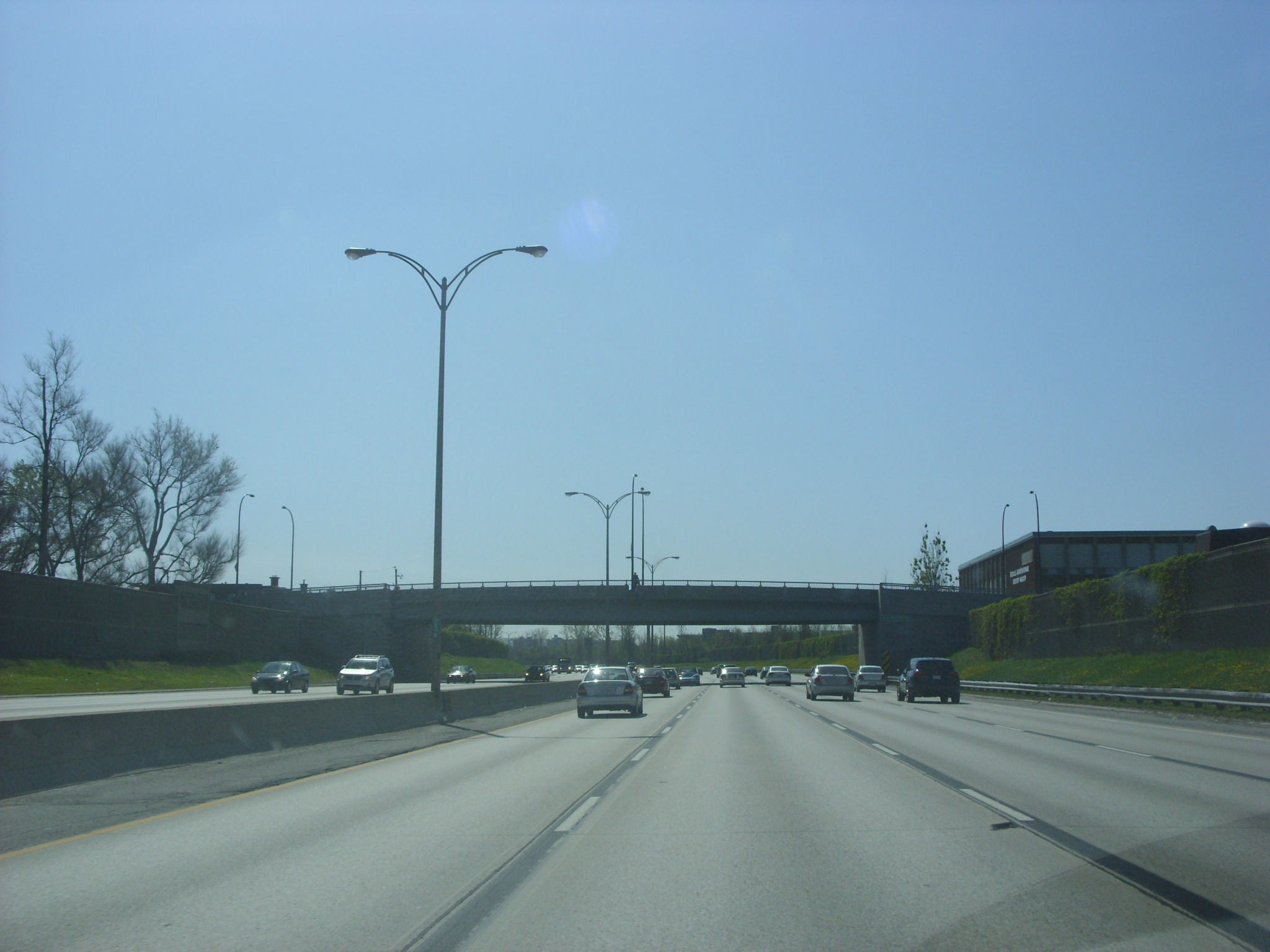 Laurentian Autoroute (15) south in Montréal aronud km 5.